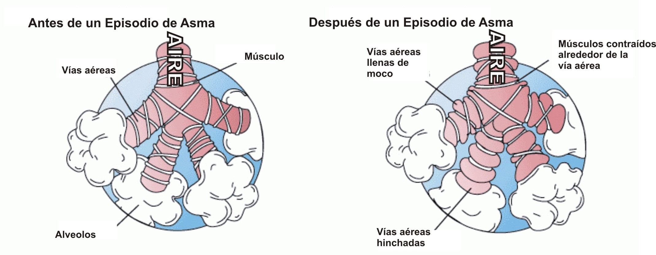 During an asthma episode, inflamed airways react to environmental triggers such as smoke, dust, or pollen. The airways narrow and produce excess mucus, making it difficult to breathe.